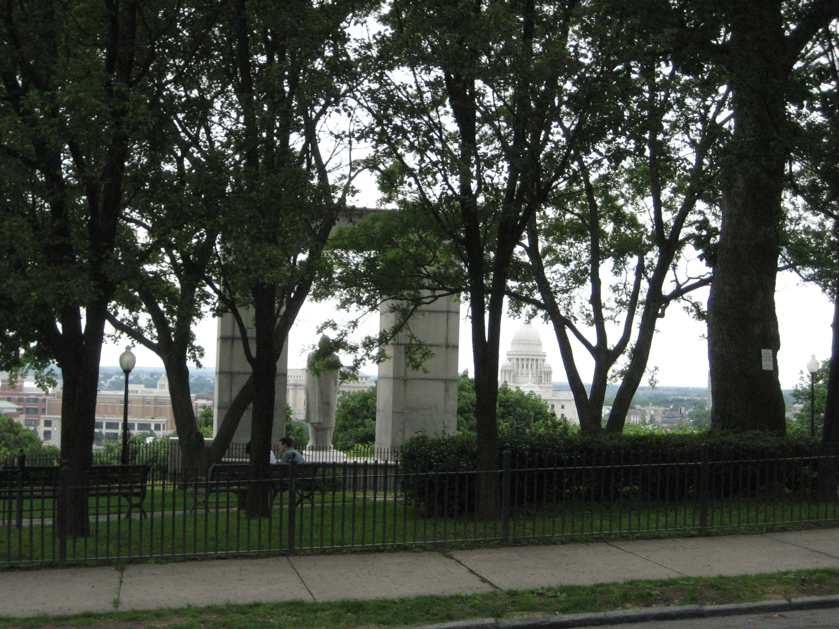 Providence, Rhode Island. Prospect Park